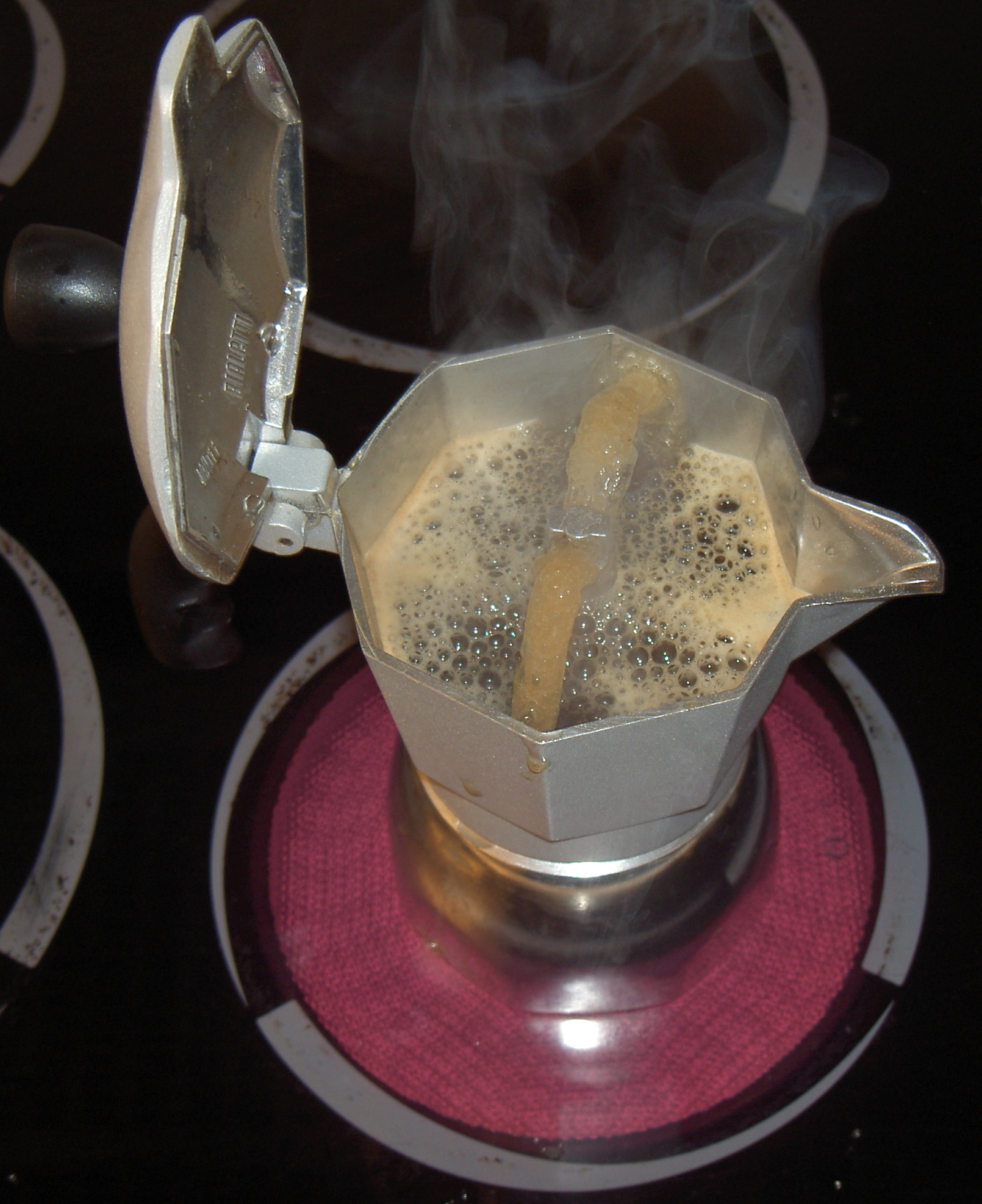 A stovetop espresso maker in action. Note that you should not try to make this picture at home. :) That is, the coffee tends to spurt over the pot eventually, and hot coffee can be dangerous!